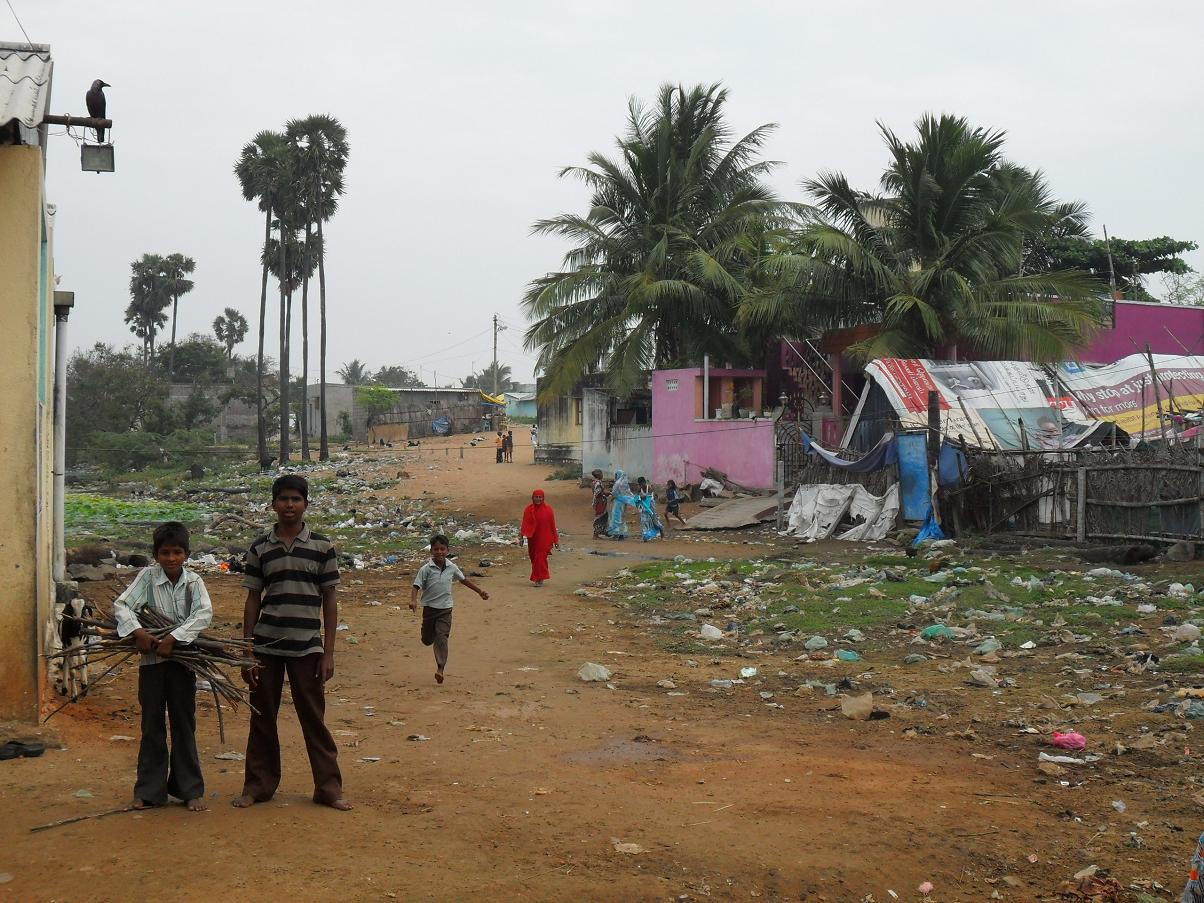 Children in a village of Tamil Nadu, India